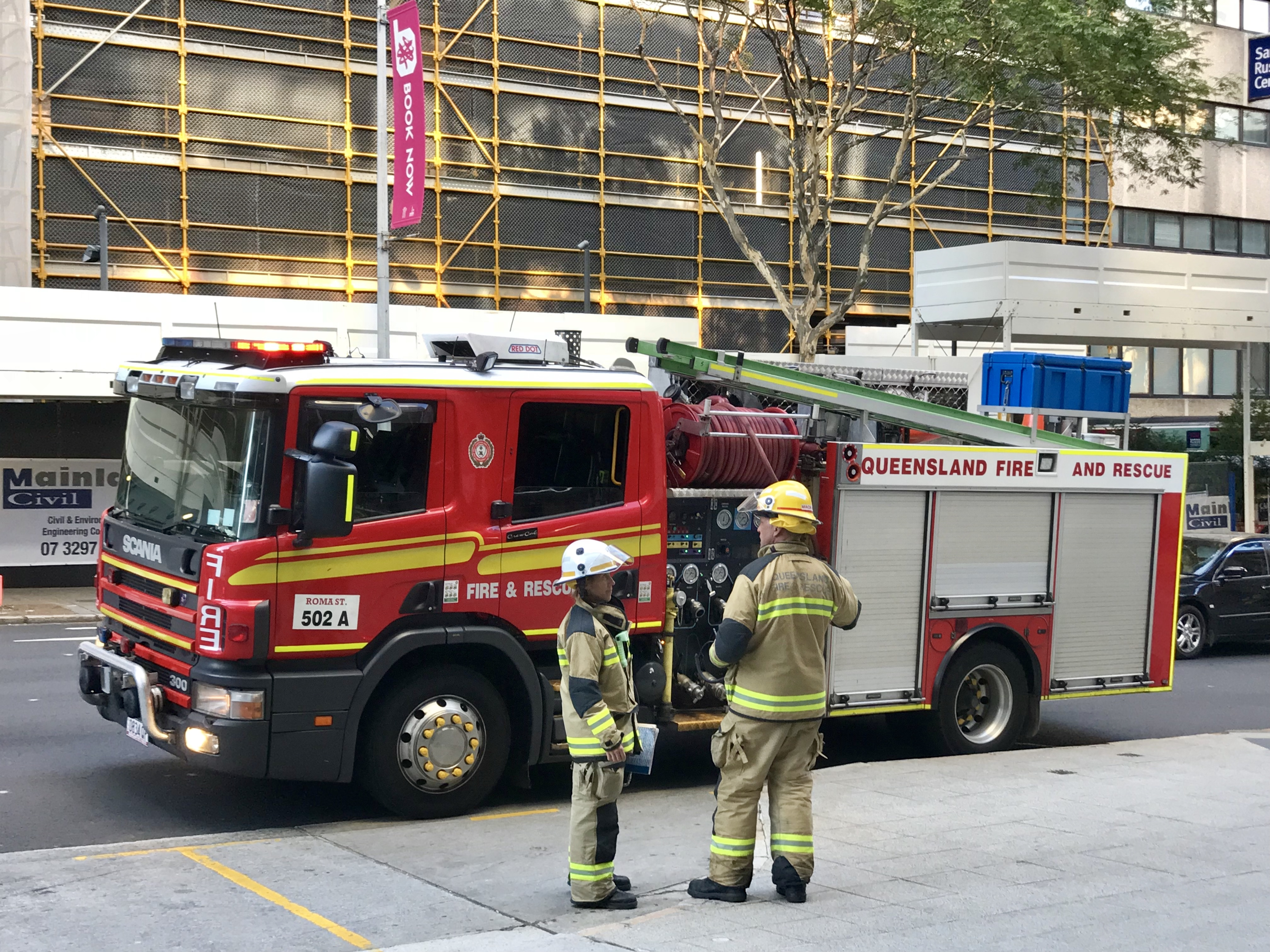 Firewoman and Fireman of the Queensland Fire and Rescue, Brisbane in August 2018